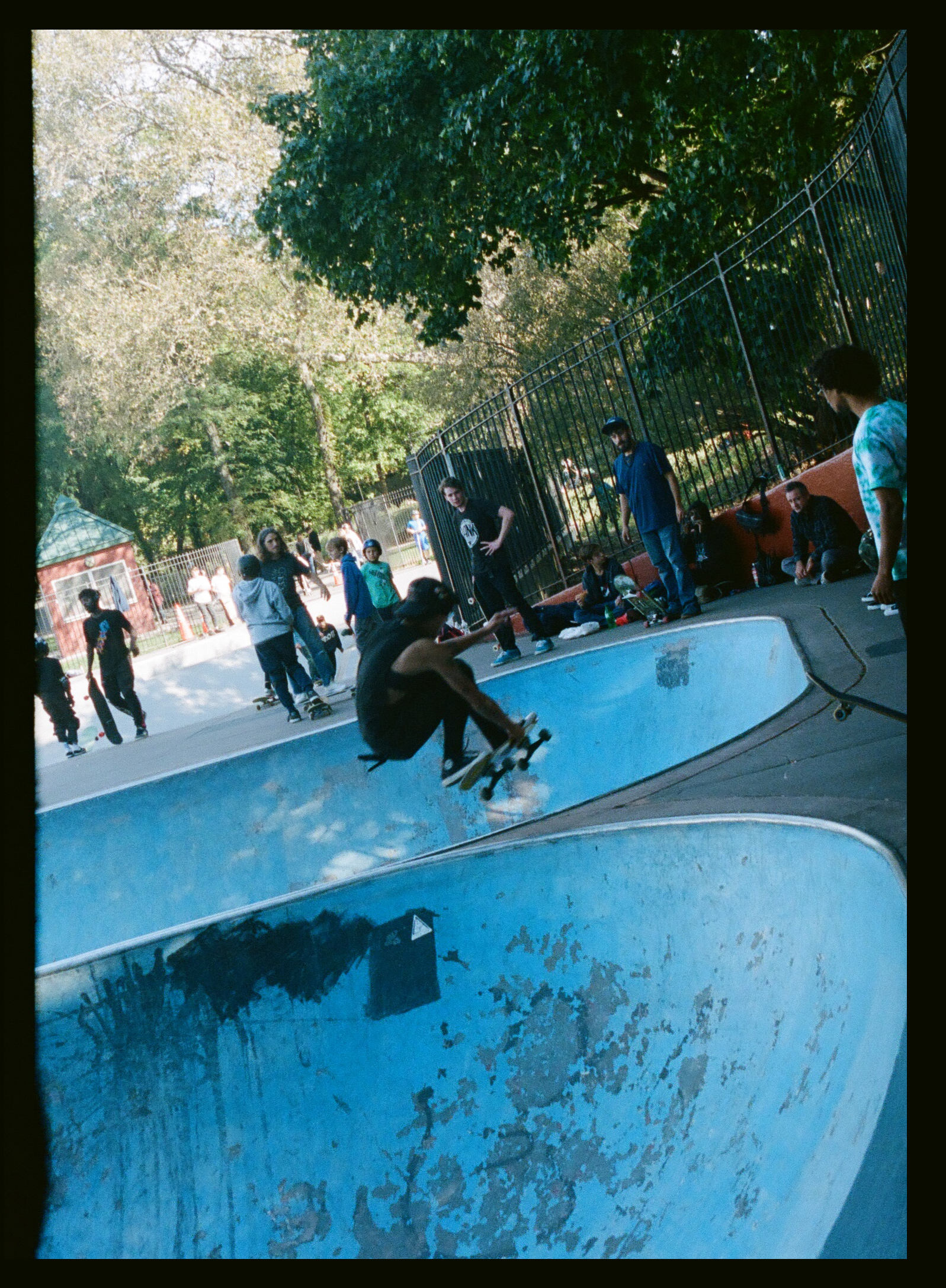 Indy grab at Millennium Skate Park during NYC Skate Coalition's Pool Series event - October 2019